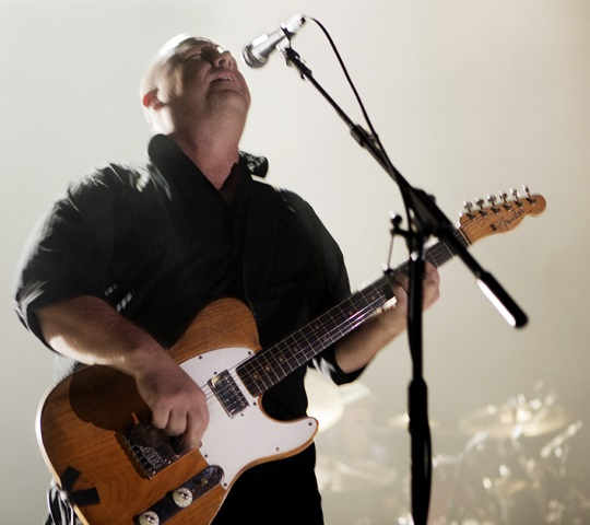 Pixies headline at the Brixton Academy